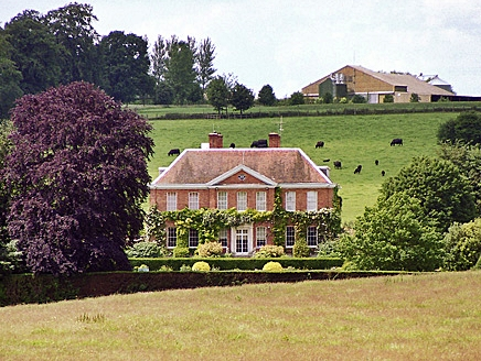 Preston House, Preston Candover. A grade II listed country house built by William Guidott MP.